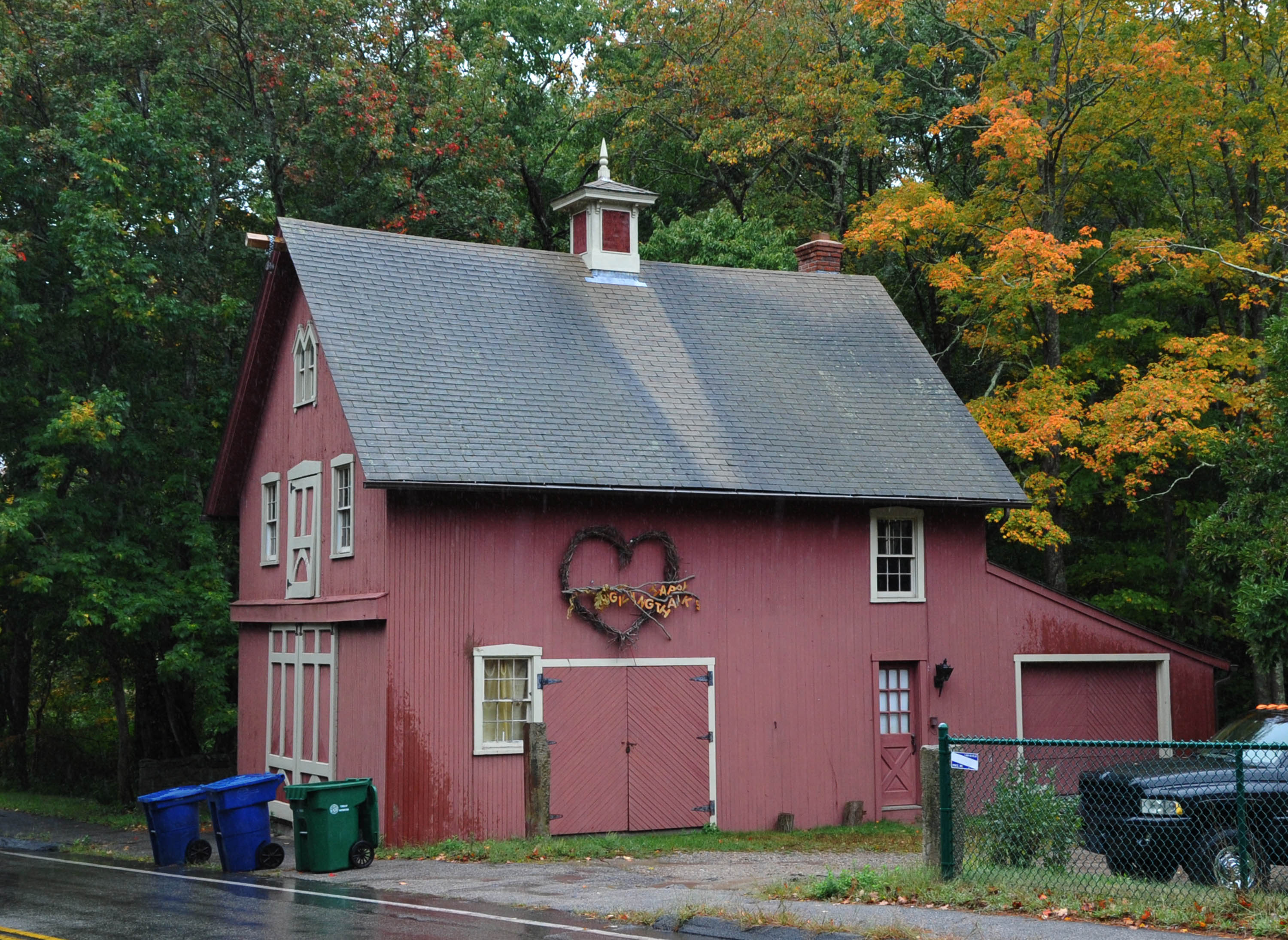 HIS 19TH CENTIURY BARN AT 227 ROPE FERRY ROAD EXHIBITS GOTHIC TRACERY